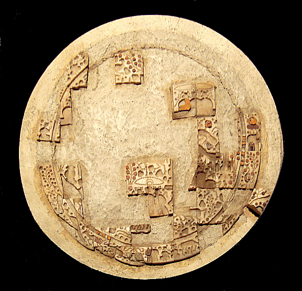 Plate of Indian origin, from Ai Khanoum. Guimet Museum. Personal photograph 2007.